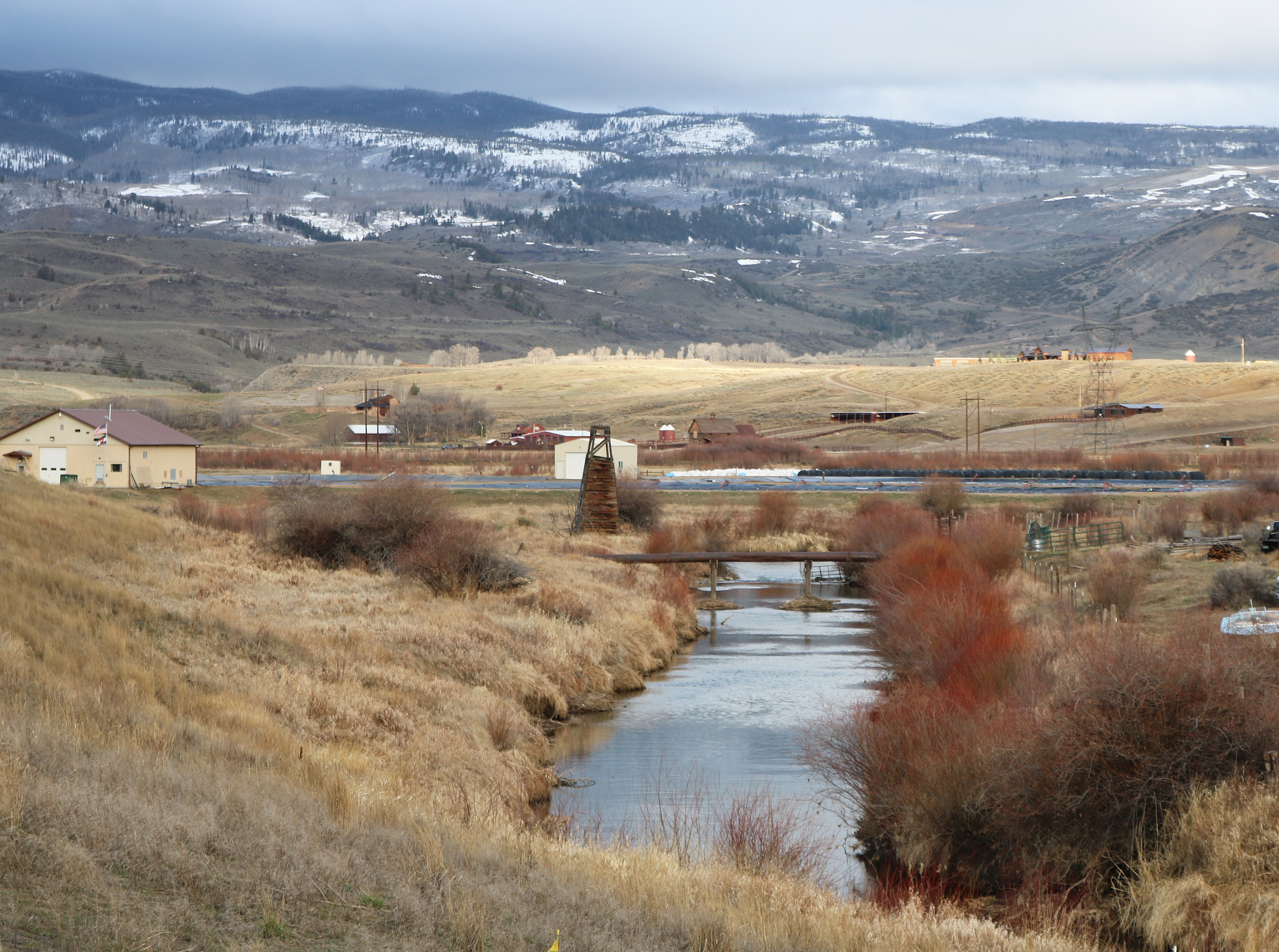 Muddy Creek in Kremmling, Colorado, before it merges with the Colorado River.